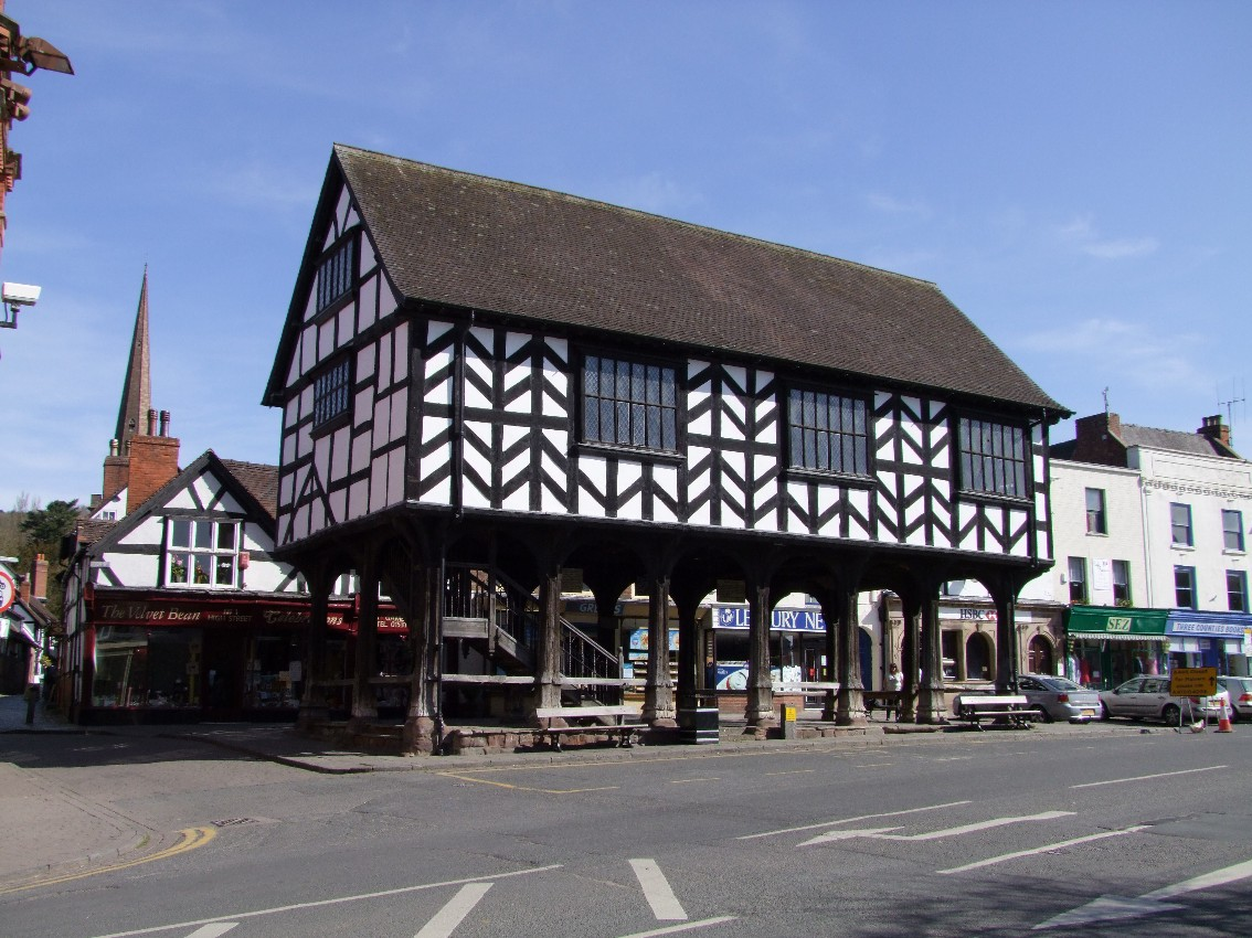 Market House in High Street, Ledbury Town